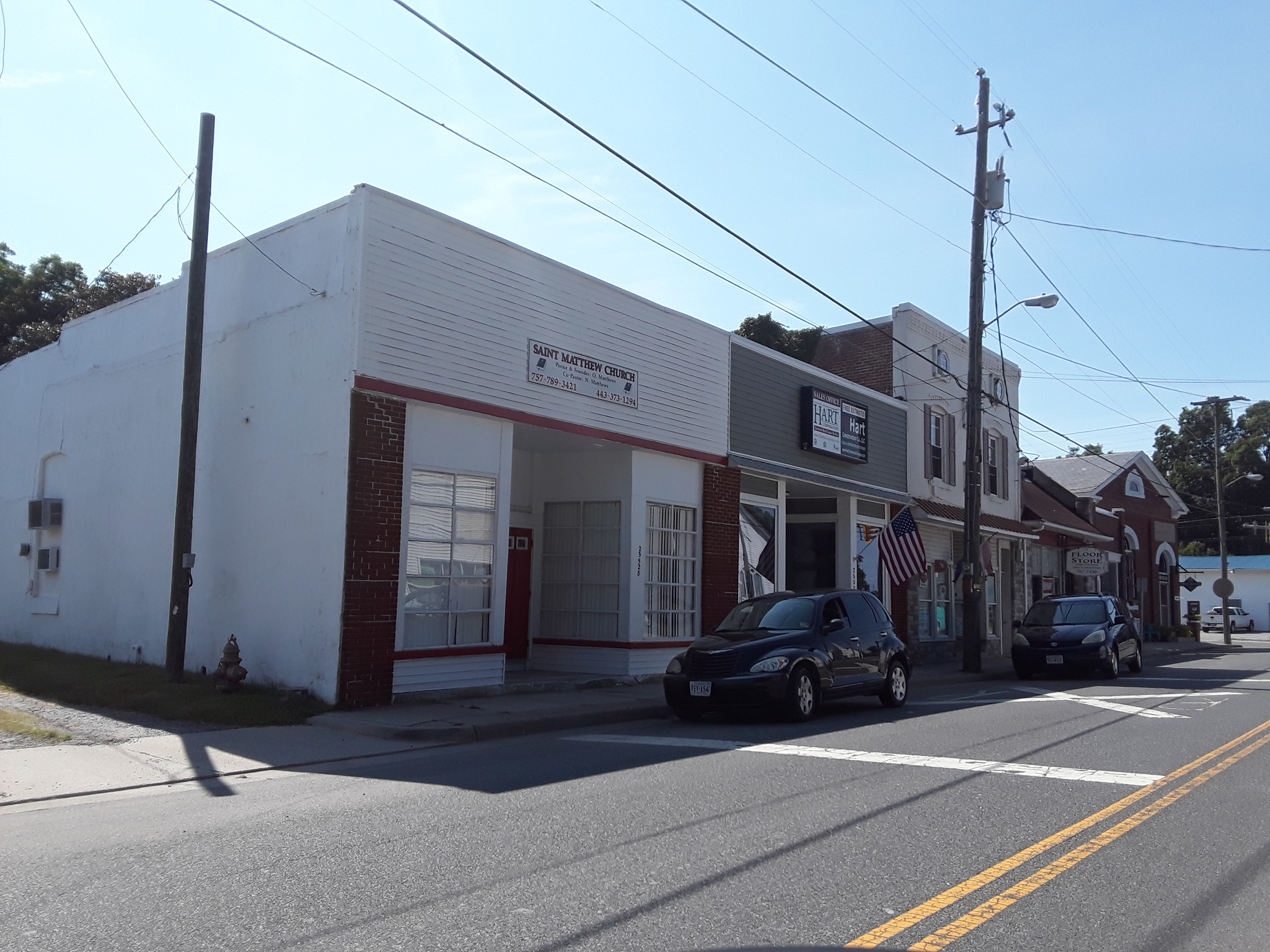 Taken on a visit to the Eastern Shore of Virginia, July 2018